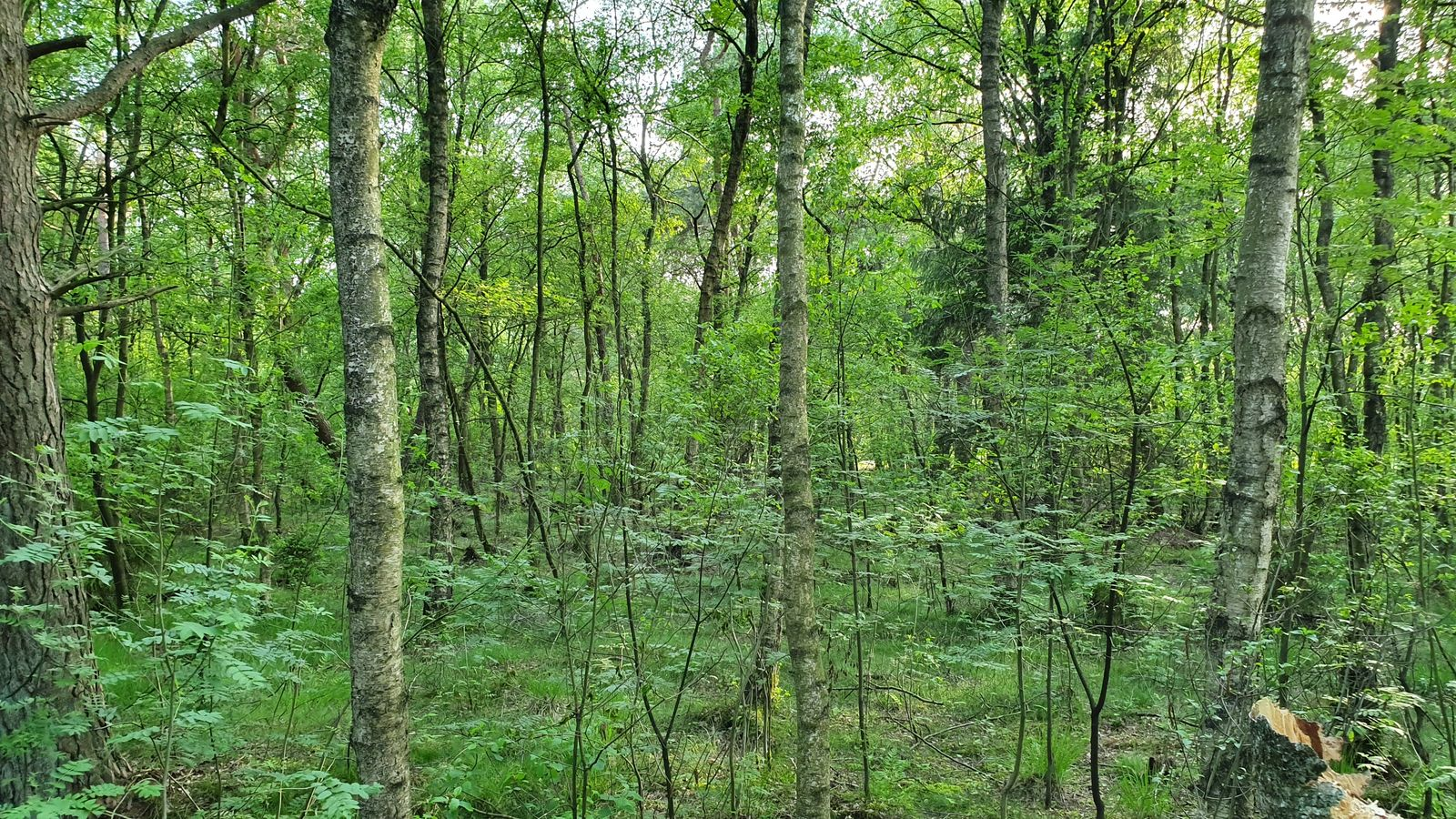 Naturschutzgebiet Großes Everstorfer Moor